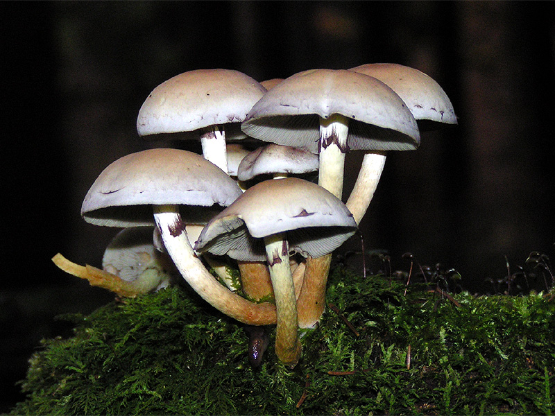 Sulphur Tuft